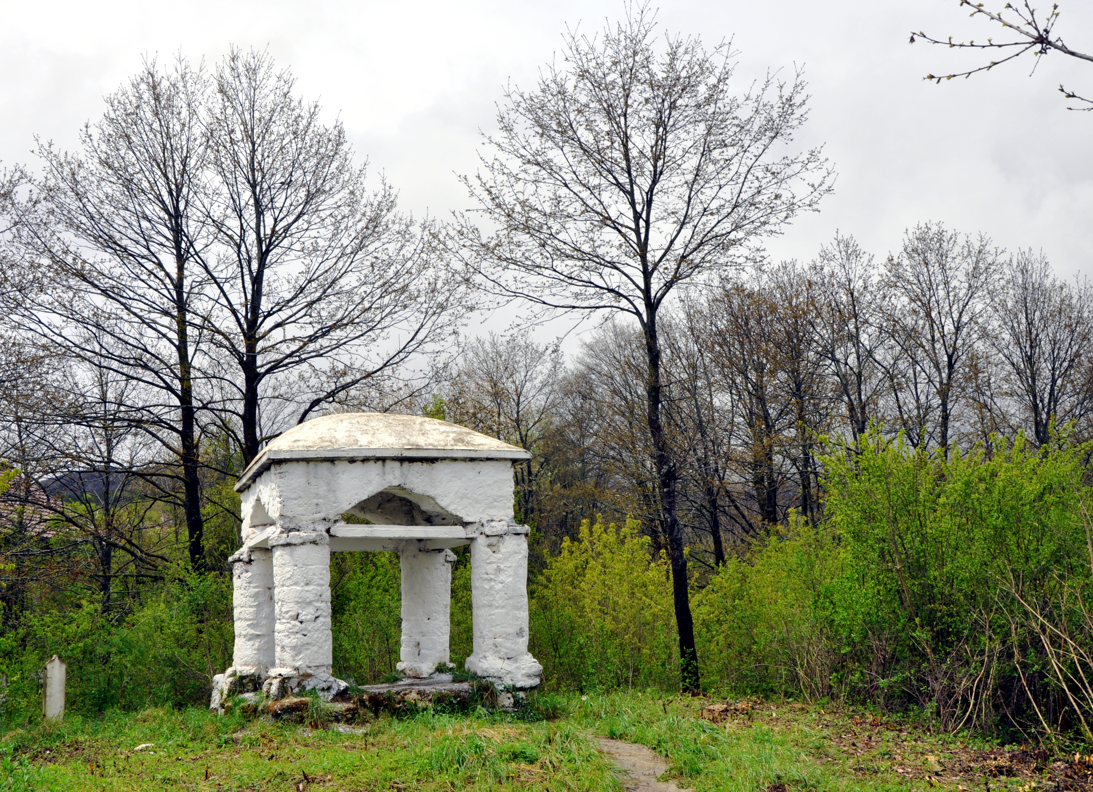 Sari Saltuk tombstone, Plav, Dragash